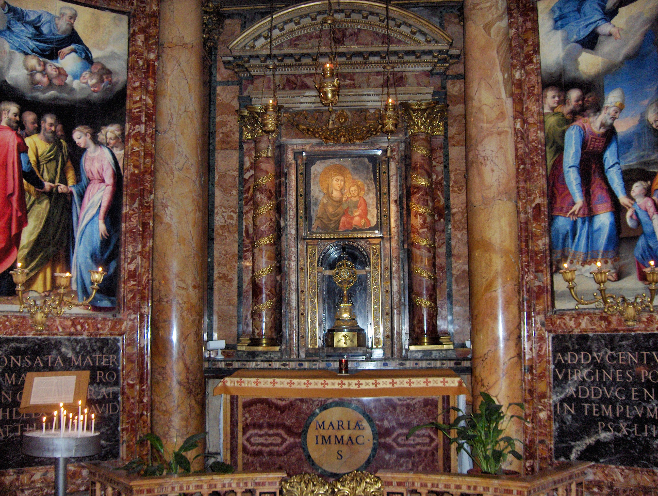 Altar with a medieval icon in the chapel of Madonna della Strada in the church Il Gesù, Rome, Italy